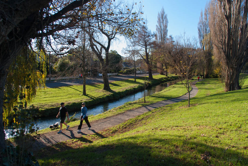 First day of Winter taking a walk through Ernle Clark Reserve, Cashmere, June 1, 2014 Christchurch New Zealand. Ernle Clark is an urban reserve in Christchurch city on the flood plain of the Heathcote River. It is a mix of exotic and native trees with an often tangled understorey of plants. The secluded wild environment attracts native forest birds like fantails, grey warbler, bellbirds, kereru, shining cuckoo, and kingfisher. The meandering track through the reserve is popular with walkers, runners, and children.